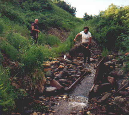 Two Alaskan gold miners working a sluice on Lucky Gulch, Alaska